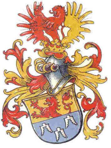 Former coat of arms of Boele, a borough of the city of Hagen in North Rhine-Westphalia, Germany.